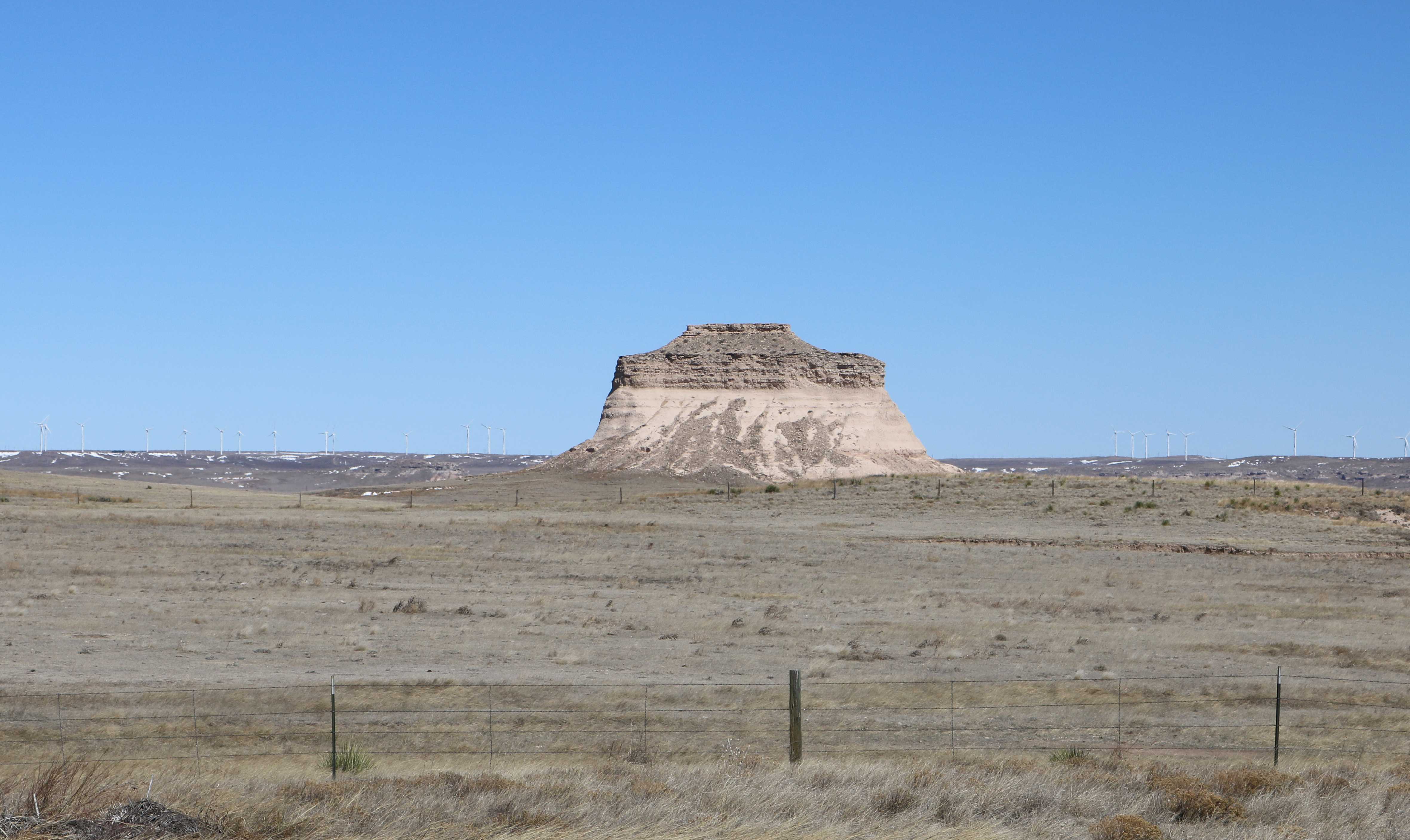 One of the two buttes that make up the Pawnee Buttes, located in the Pawnee National Grassland in Weld County, Colorado. Part of the Cedar Creek Wind Farm can be seen in the distance.